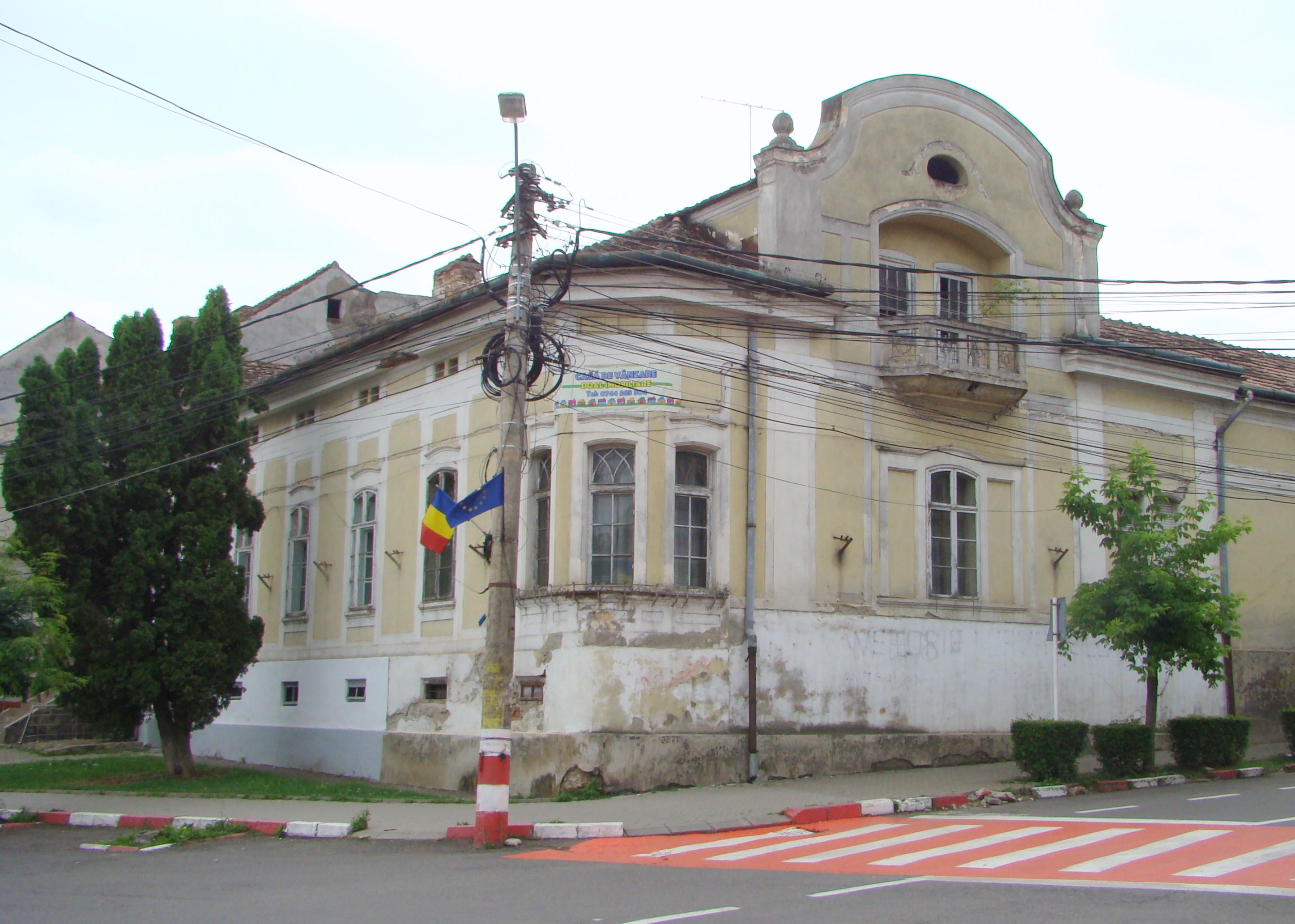 House, historic monument, in Reghin, Petru Maior square, nr.10